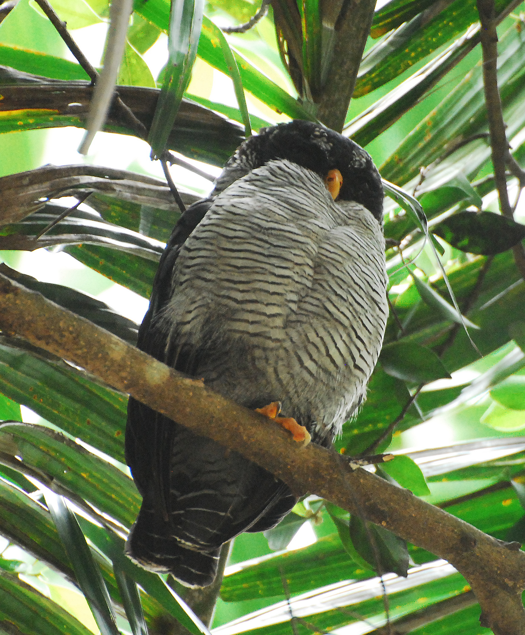 Black-and-white Owl (Ciccaba nigrolineata) in the central plaza at Orotina, Costa Rica, 080221. Ciccaba nigrolineta. This pair has been resident at this plaza for about 15 years.